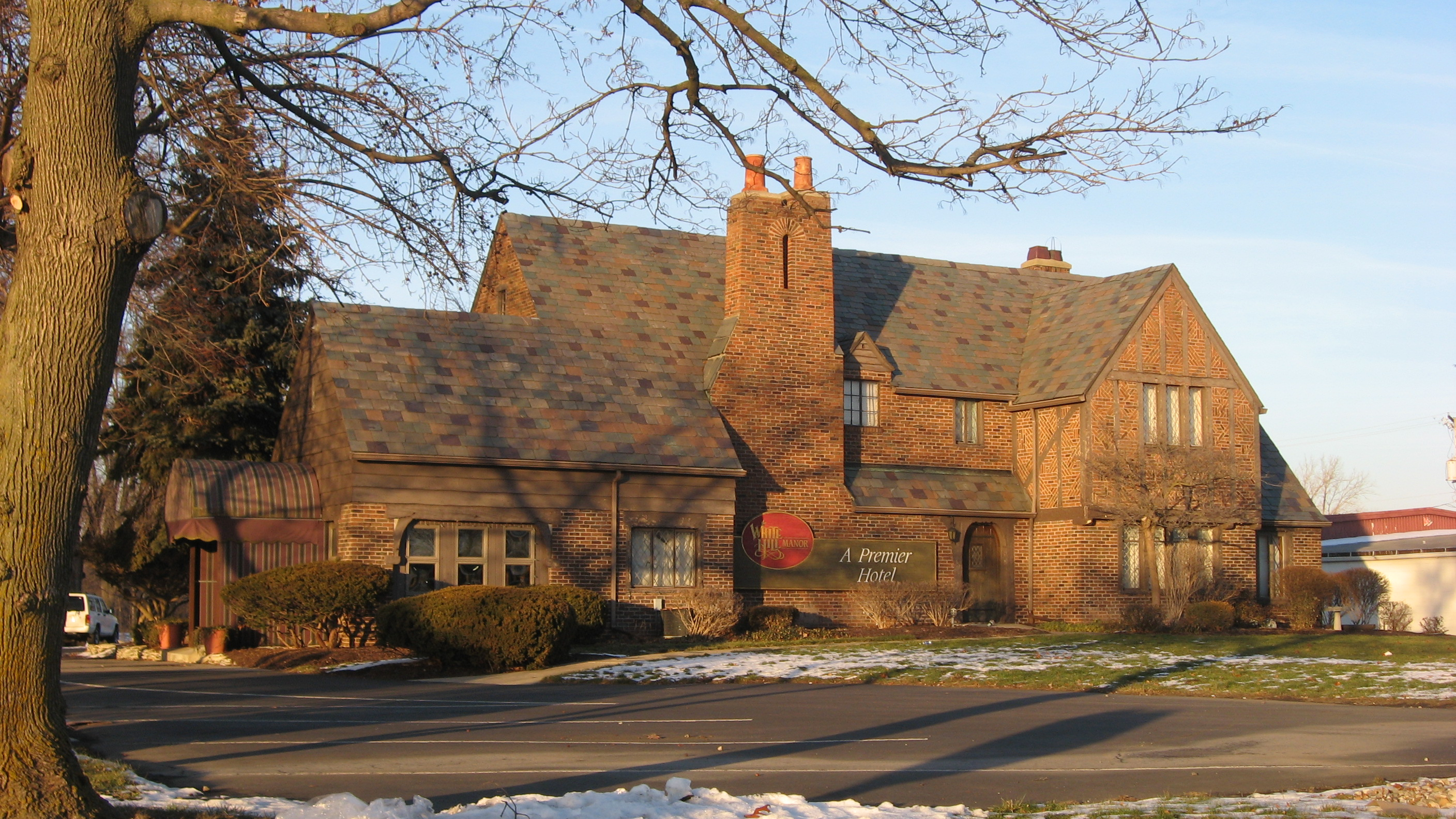 Front of the Justin Zimmer House, located at 2513 E. Center Street in Warsaw, Indiana, United States. Built in 1934 to a design by Alvin M. Strauss, it was home to the founder of Zimmer Holdings, a prominent local company, and it is one of two extant Tudor Revival houses in the city. Now a bed and breakfast, the White Hill Manor, it is listed on the National Register of Historic Places.